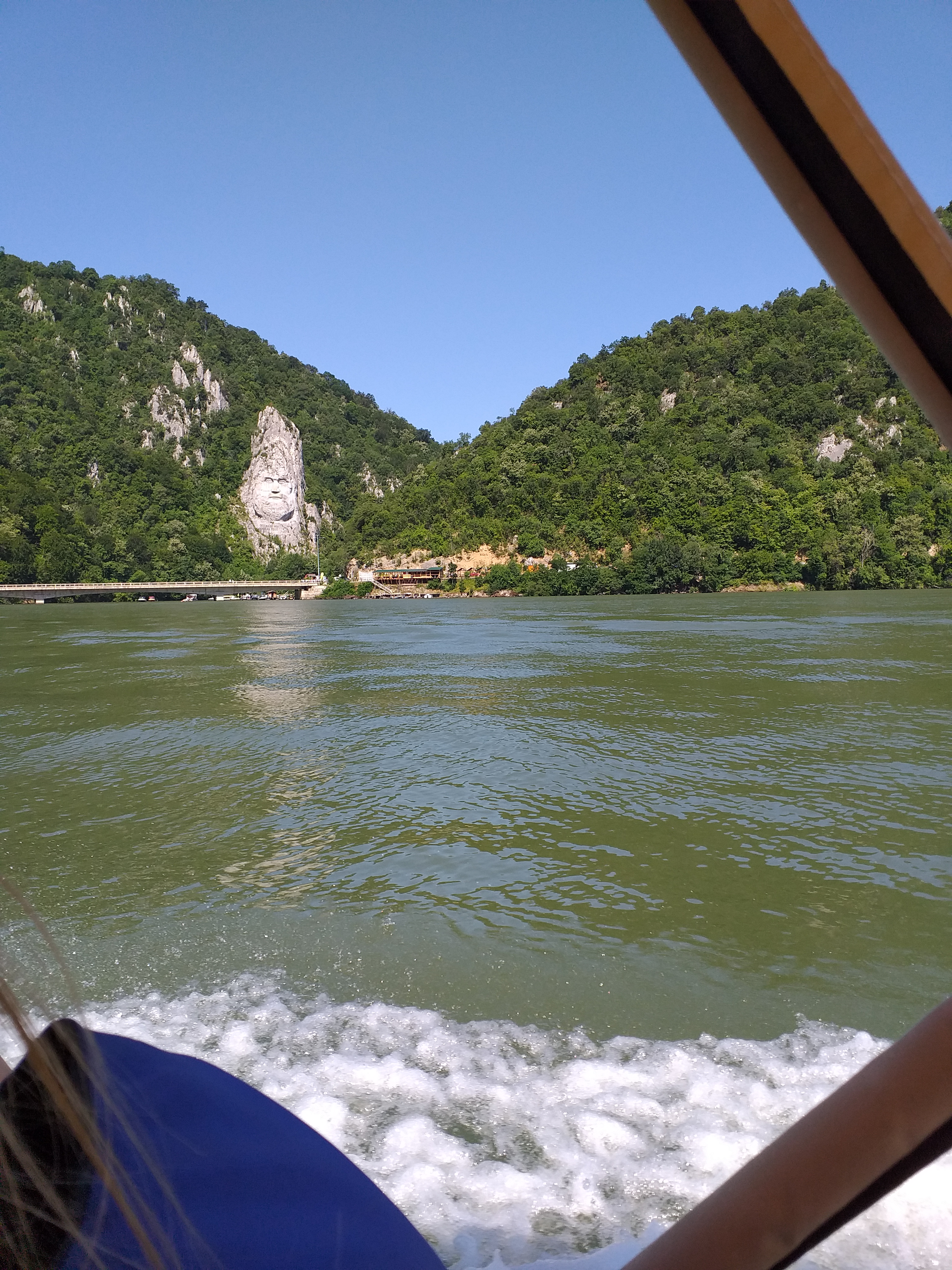 Decebal je poslednji kralj Dačana koji je vladao u razdoblju od 87. do 106. godine. Ovo je njegov portret uklesan na rumunskoj strani Đerdapske klisure.